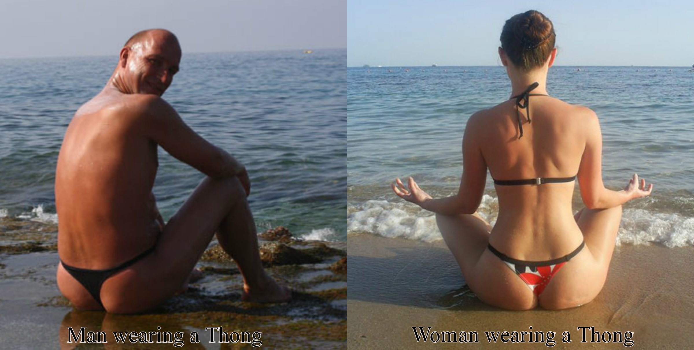 . Pavlina tries to calm at next to waves, yoga at the beach (labelled right image).